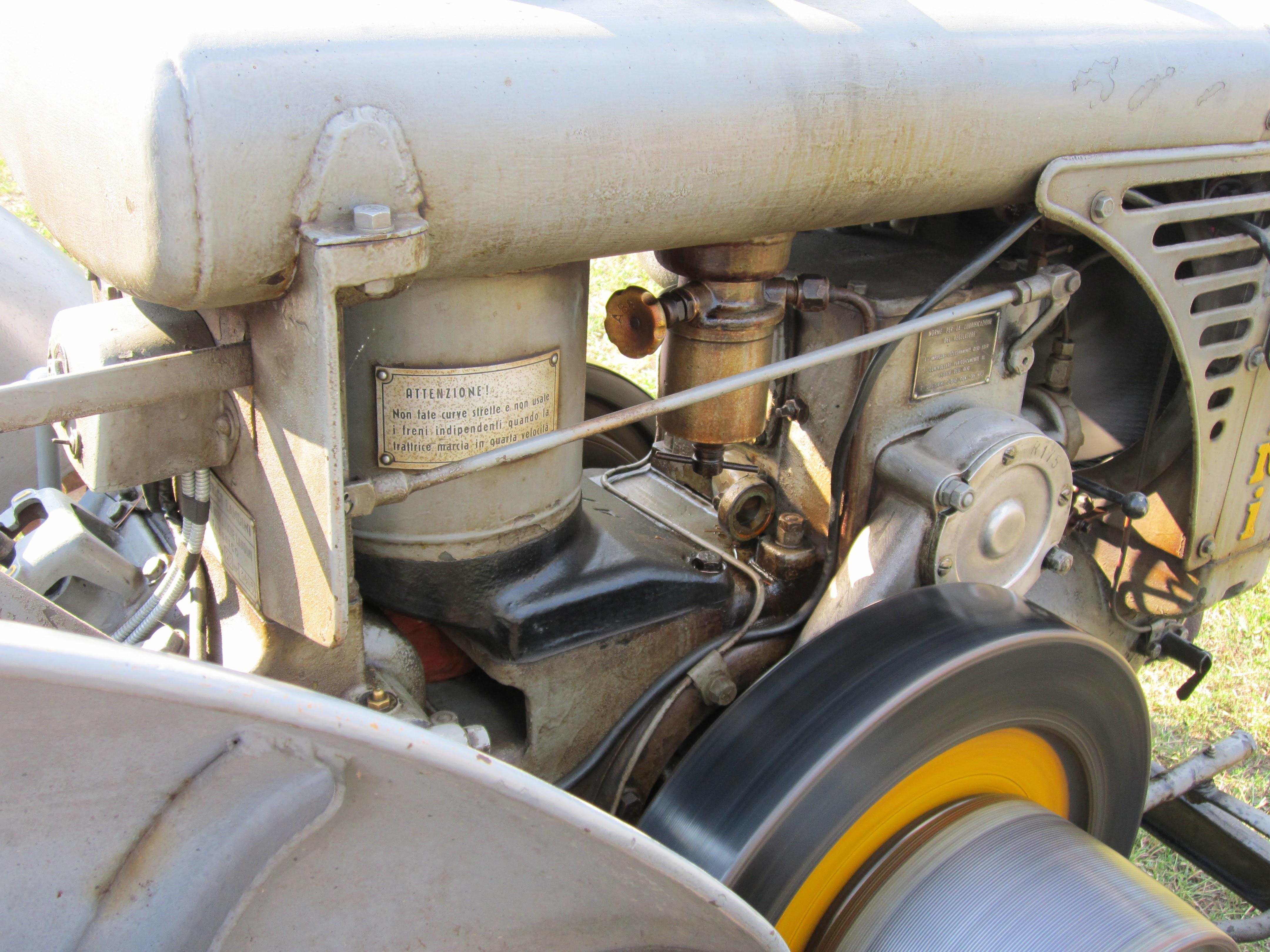 Landini L 25 tractor